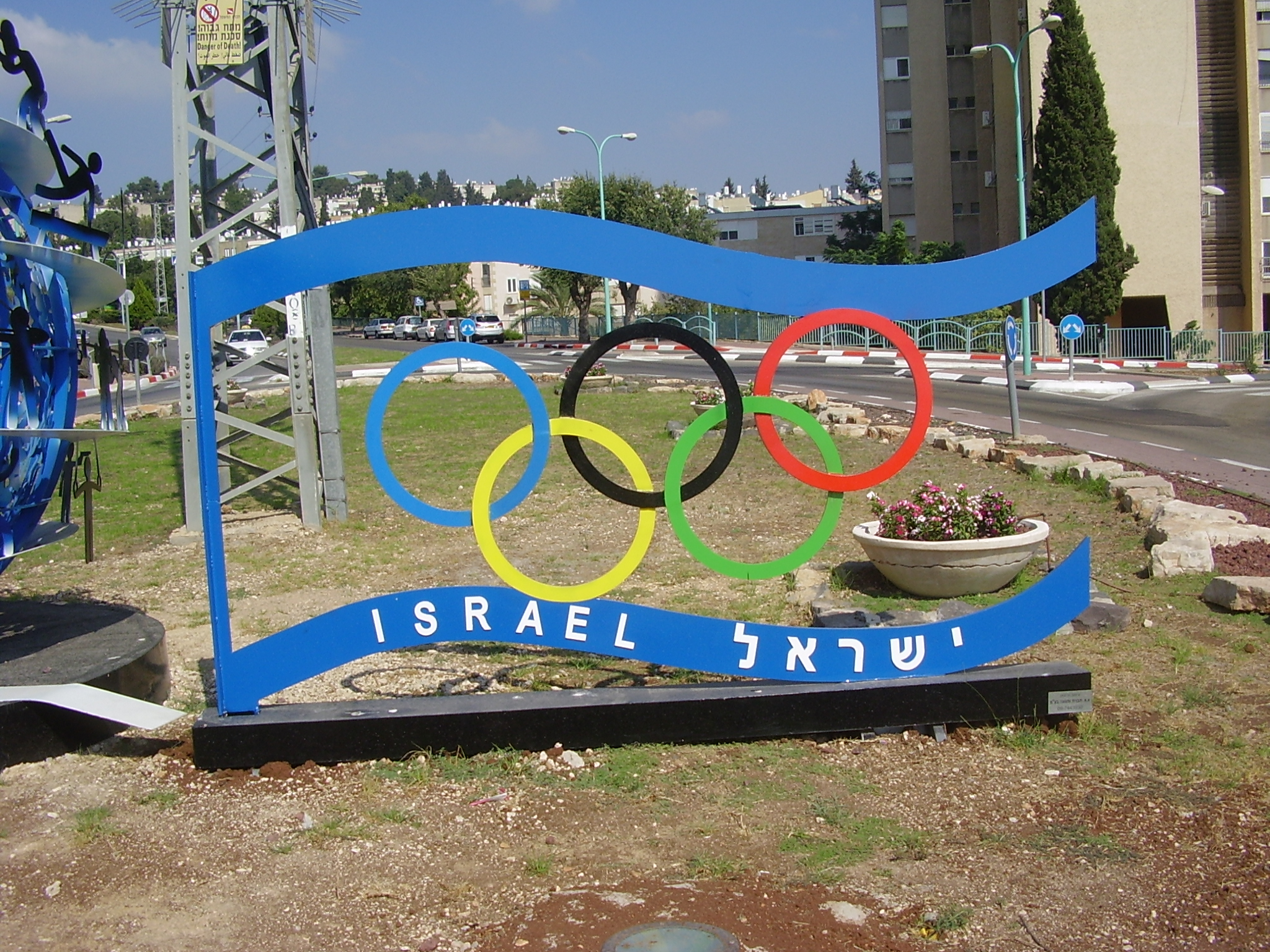 Memorial to munich massacre in Nazareth Illit, Israel